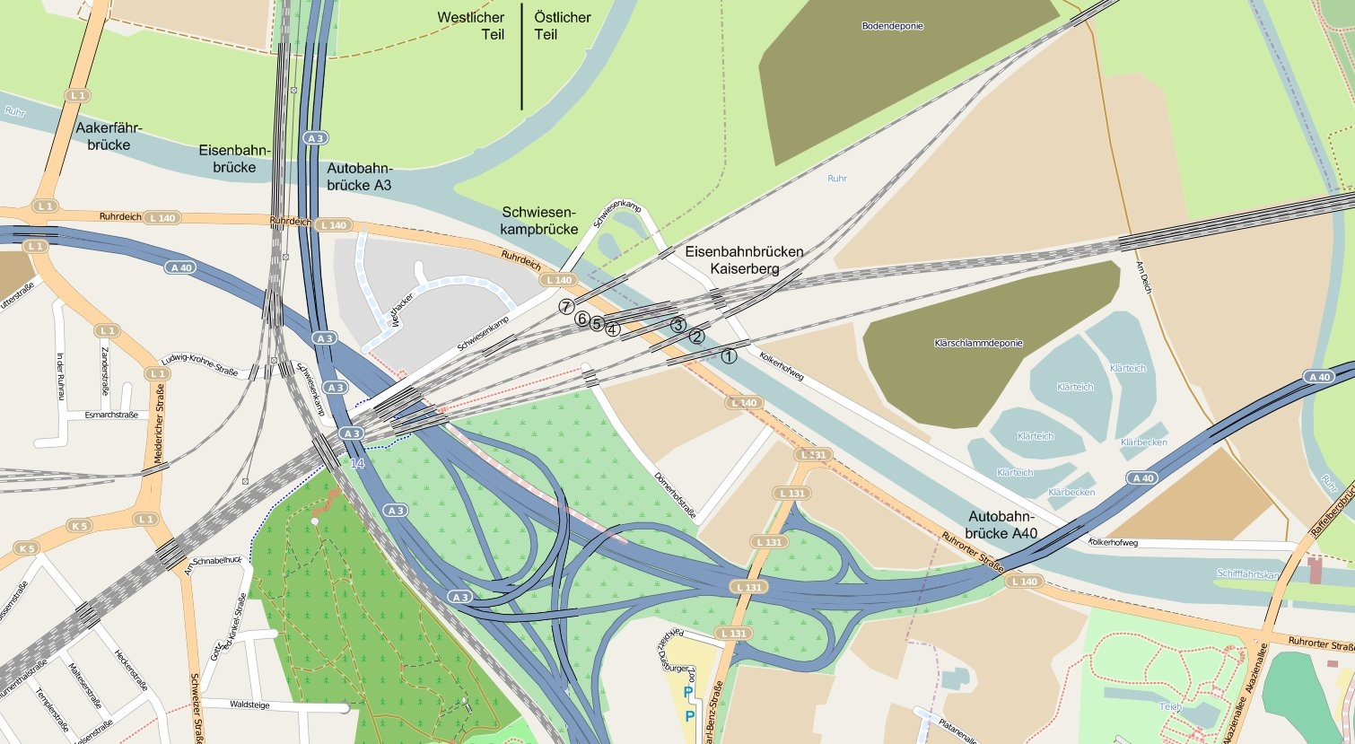 map section of Brückenlandschaft Ruhraue